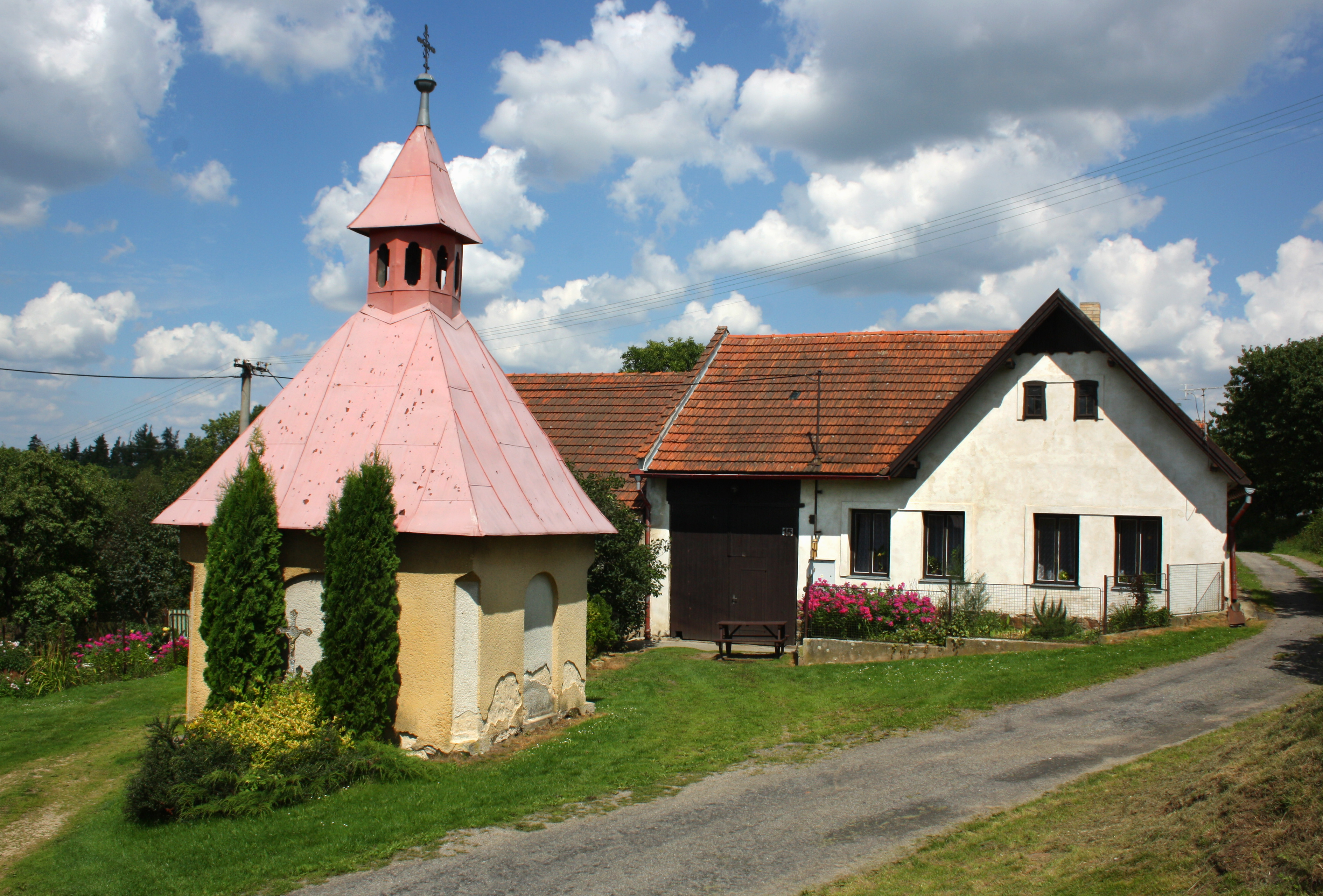 Small chapel in Střítež pod Křemešníkem village, Czech Republic